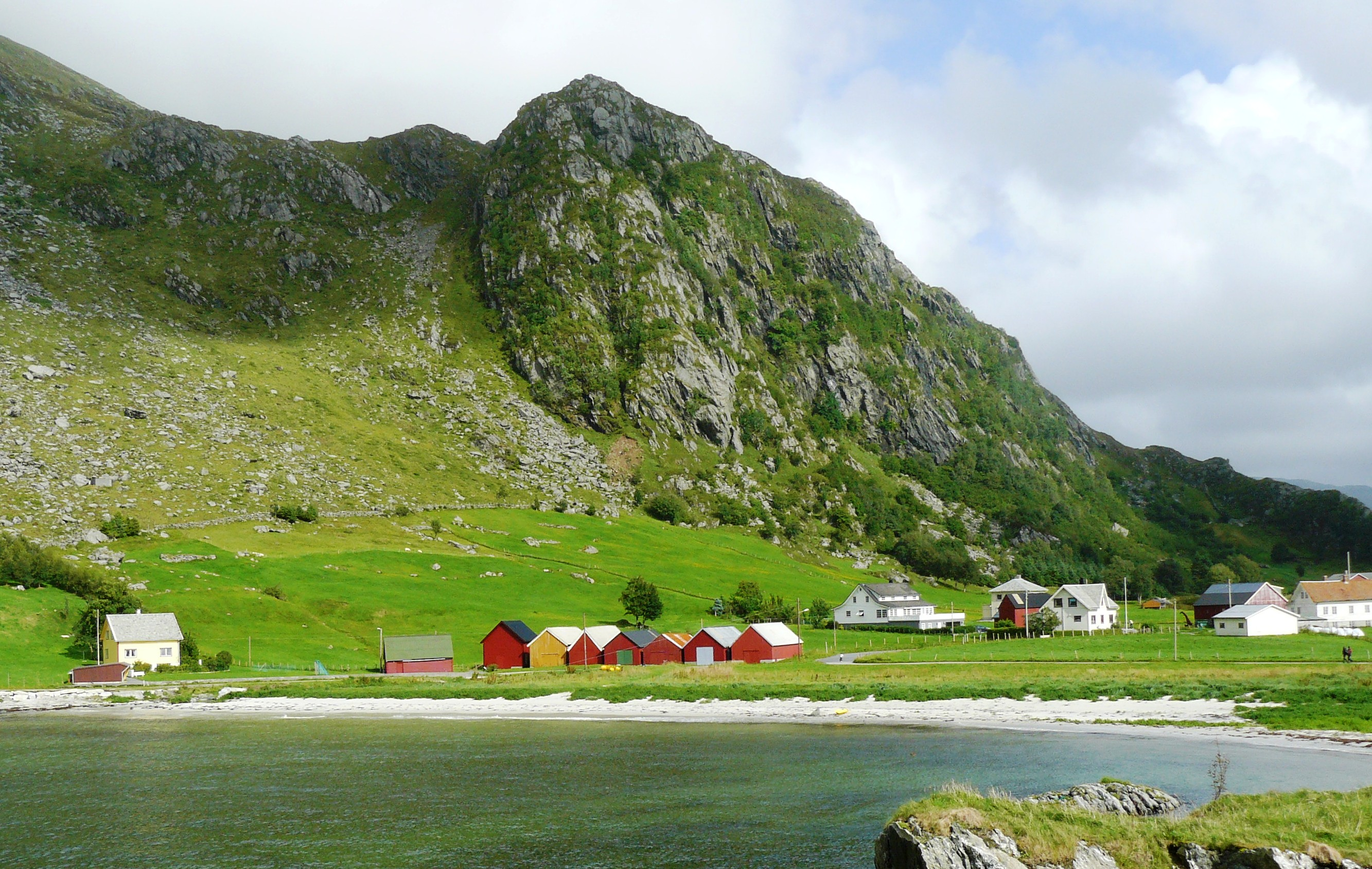 Grotle beach in Bremanger, Norway - sheltered part of the beach.jpg